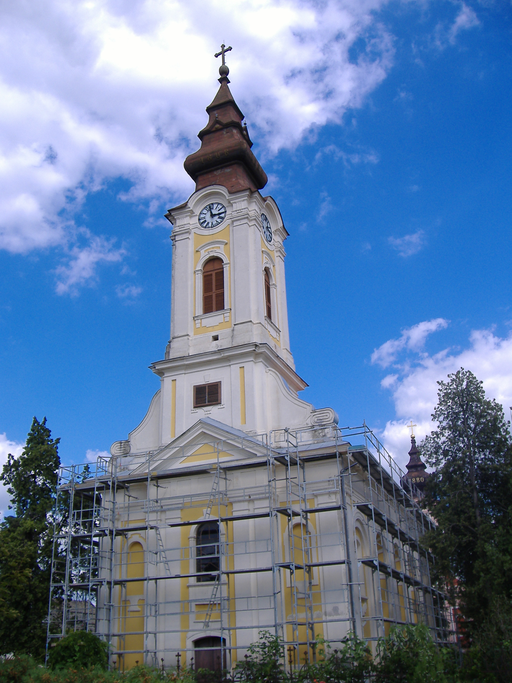 Romanian orthodox church under renewal in Magyarcsanád, vilage near Makó (Hungary).